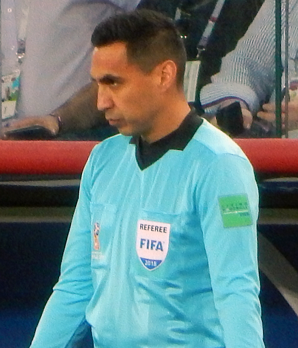 FIFA World Cup 2018, Group E, Serbia vs. Brazil